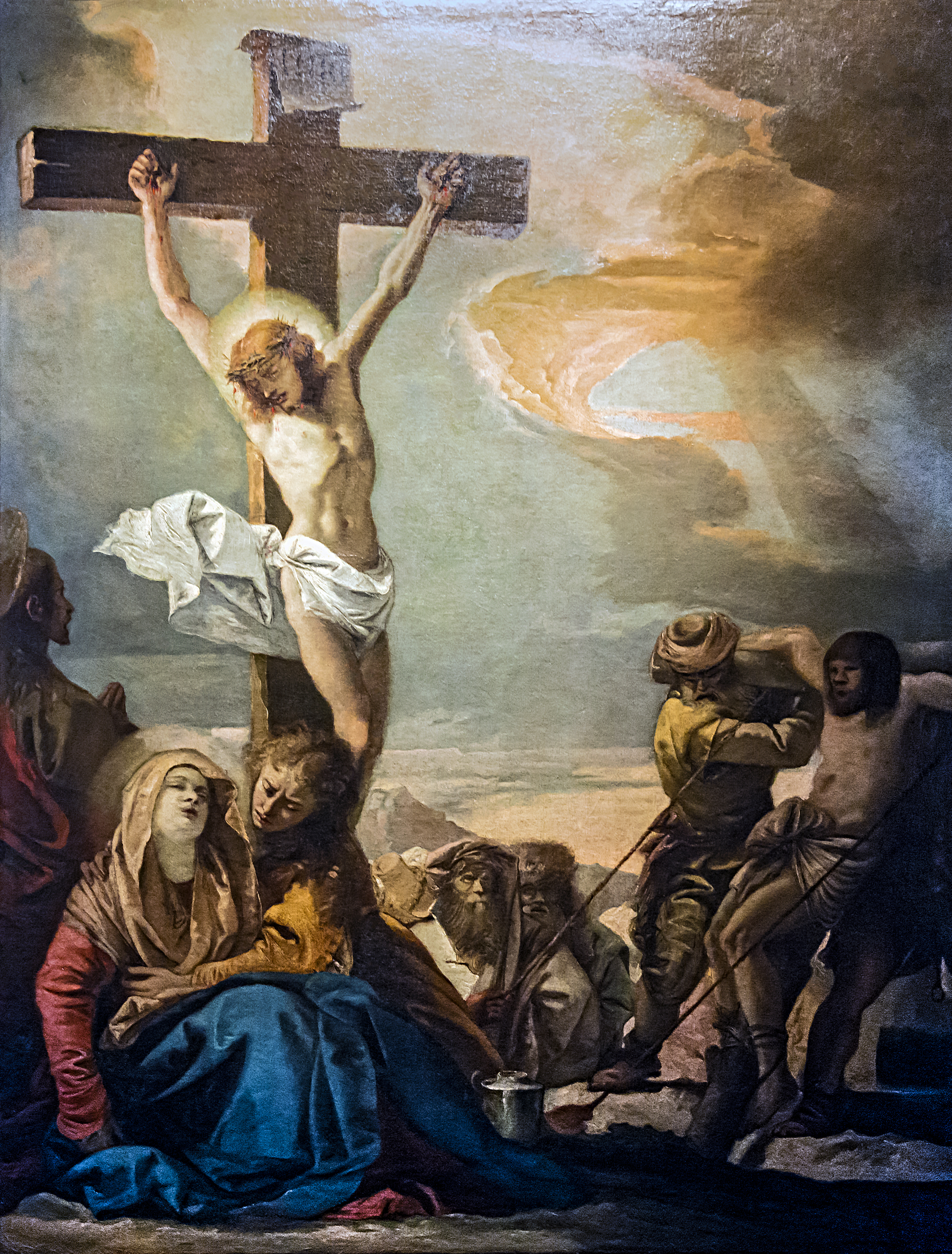 San Polo (church) - Oratory of the Crucifix - VIA CRUCIS XII - Jesus dies on the cross by Giandomenico Tiepolo. Oil on canvas (1745 -1749).